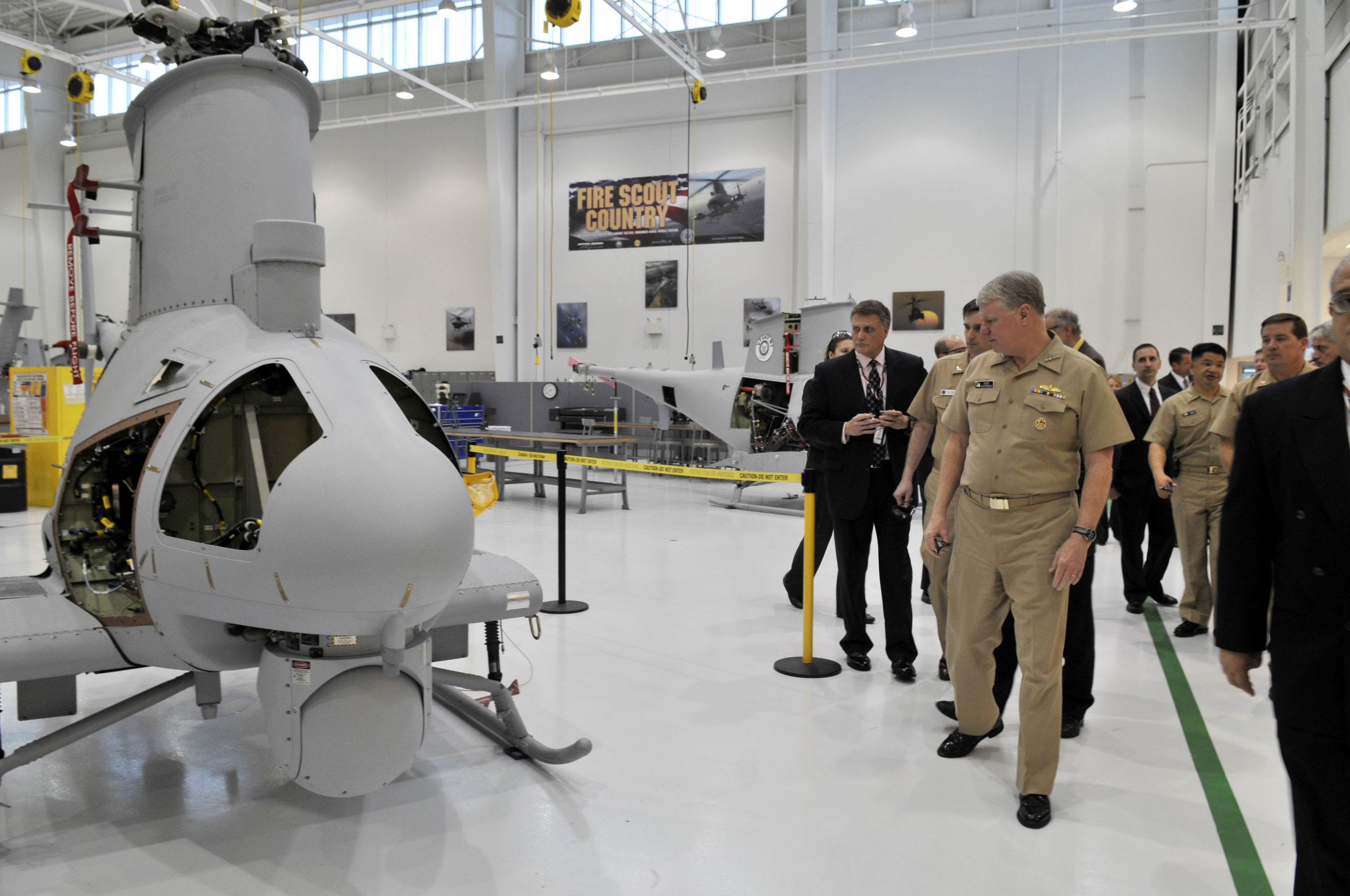 PASCAGULA, Miss. (March 31, 2009) Chief of Naval Operations (CNO) Adm. Gary Roughead tours the Northrop Grumman MQ-8B Fire Scout Vertical Takeoff and Landing Tactical Unmanned Aerial Vehicle (VTUAV) Facility in Pascugula, Miss. Roughead visited the Gulf Coast region to speak with leadership and receive program status updates on ships, unmanned systems and industry facilities. U.S. Navy photo by Mass Communication Specialist 1st Class Tiffini M. Jones/Released)